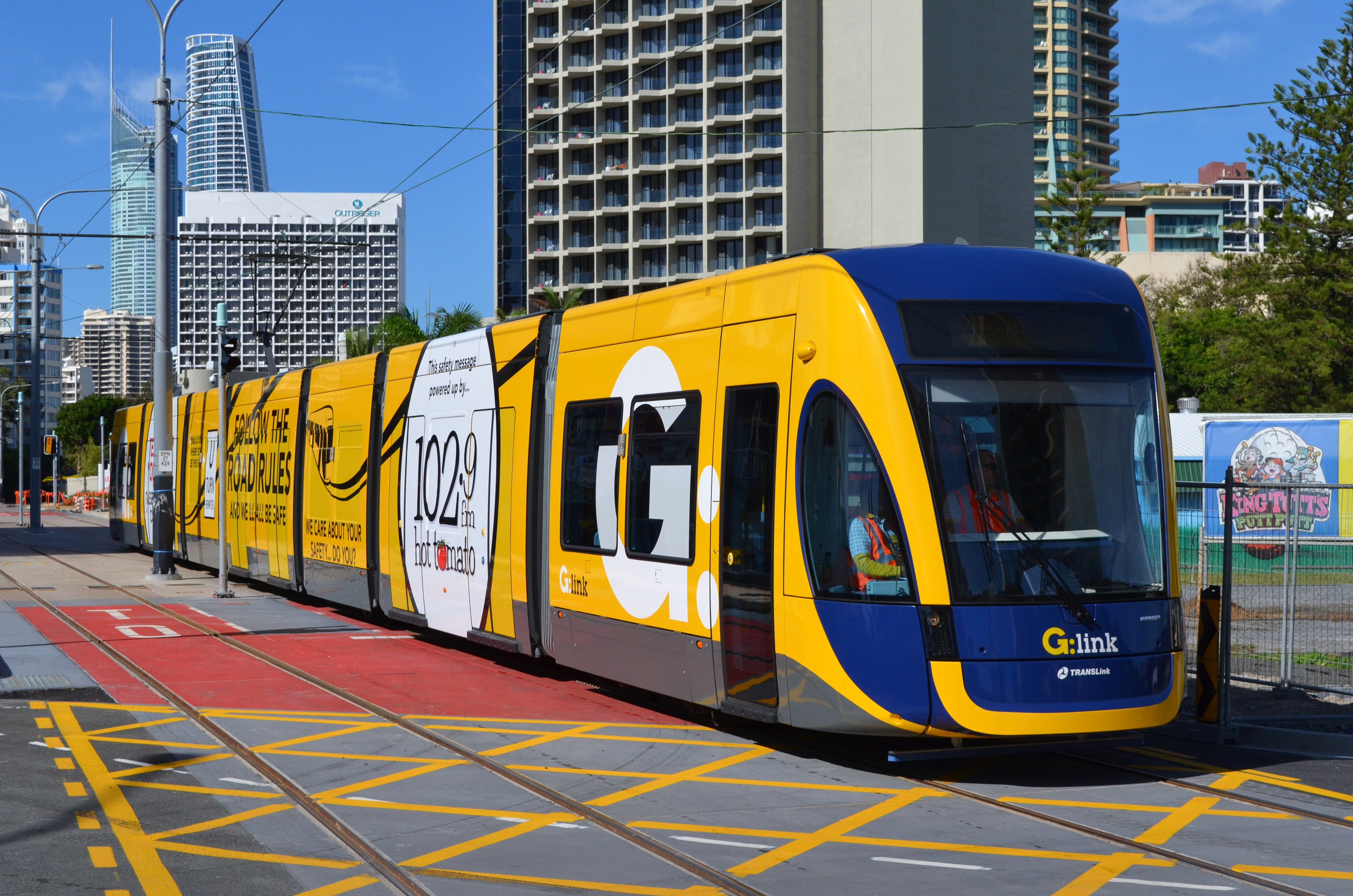 A northbound not-yet-numbered Gold Coast Flexity 2 tram undergoing testing on the not-yet-opened GoldLinQ light rail line in Surfers Paradise Boulevard, at the corner of Ocean Avenue, Surfers Paradise, Queensland, Australia. This section of Surfers Paradise Boulevard was part of the Surfers Paradise Street Circuit until that circuit was shortened prior to the Gold Coast 600 race in 2010.